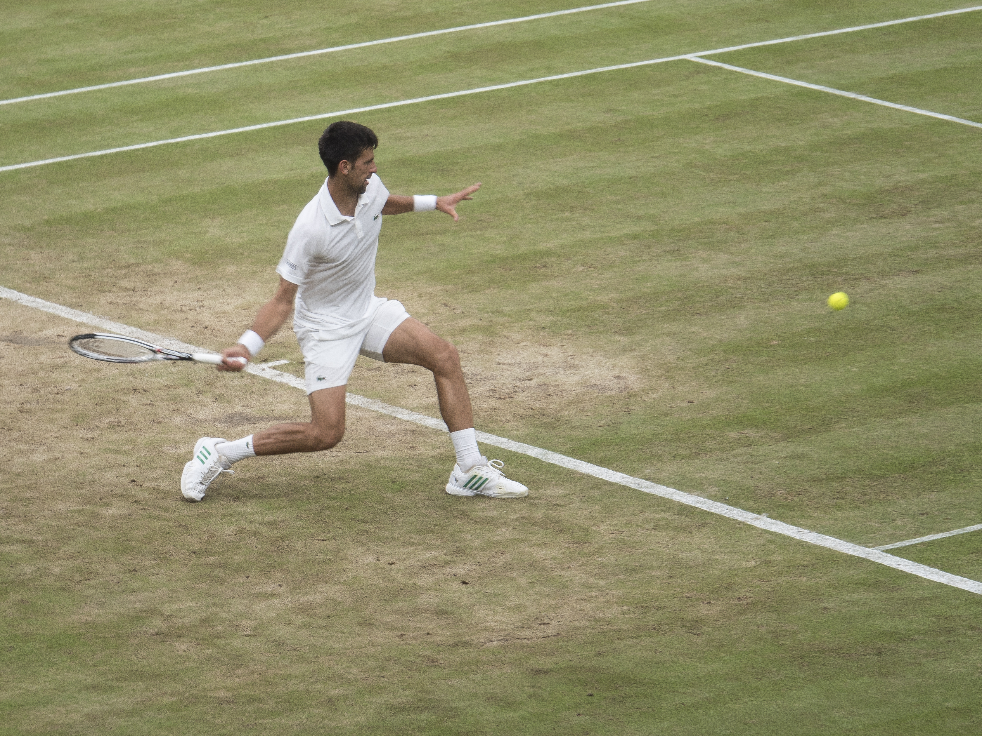 Wimbledon 2017